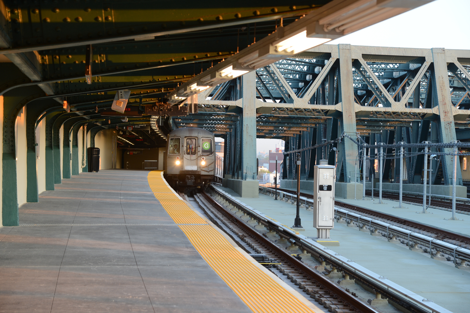 Finishing touches underway to prepare for the grand re-opening of the Smith-9 Streets station on Fri., April 26, 2013. (Photo: MTA New York City Transit / Marc A. Hermann)